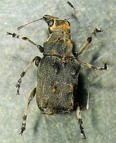 adult Gynarchaeus ornatus